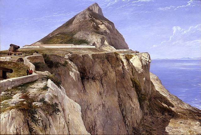 1862 painting of the Rock of Gibraltar by Frederick Richard Lee, showing the long low white buildings, Windmill Hill Barracks at the far side of the plateau